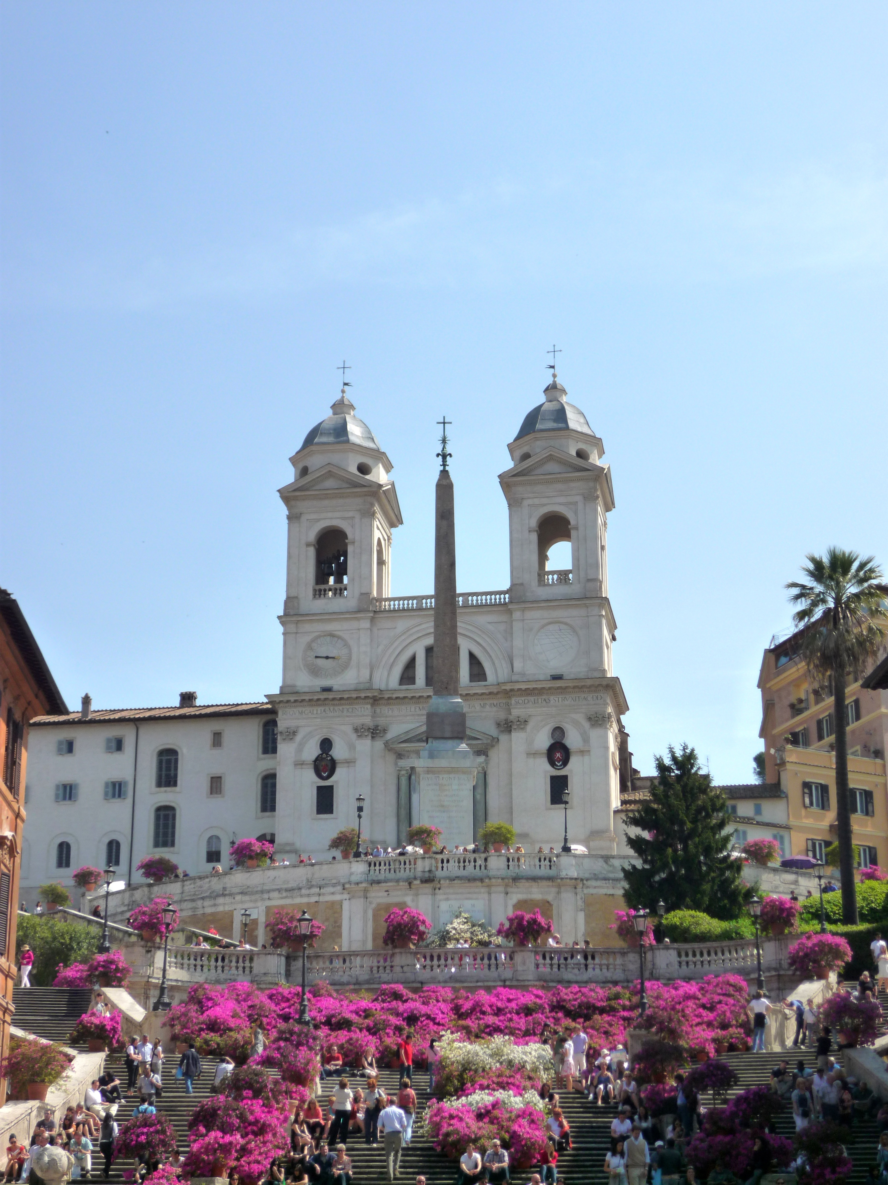 Rome, the Spanish Steps and "Trinita dei Monti" church